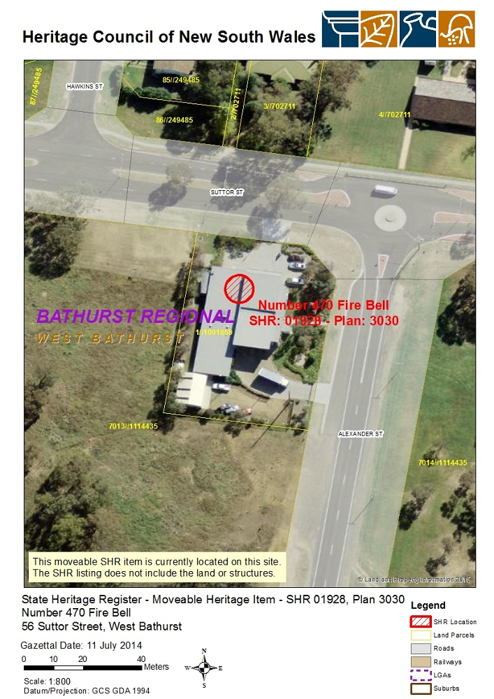 Number 470 Fire Bell: SHR Plan No 3030